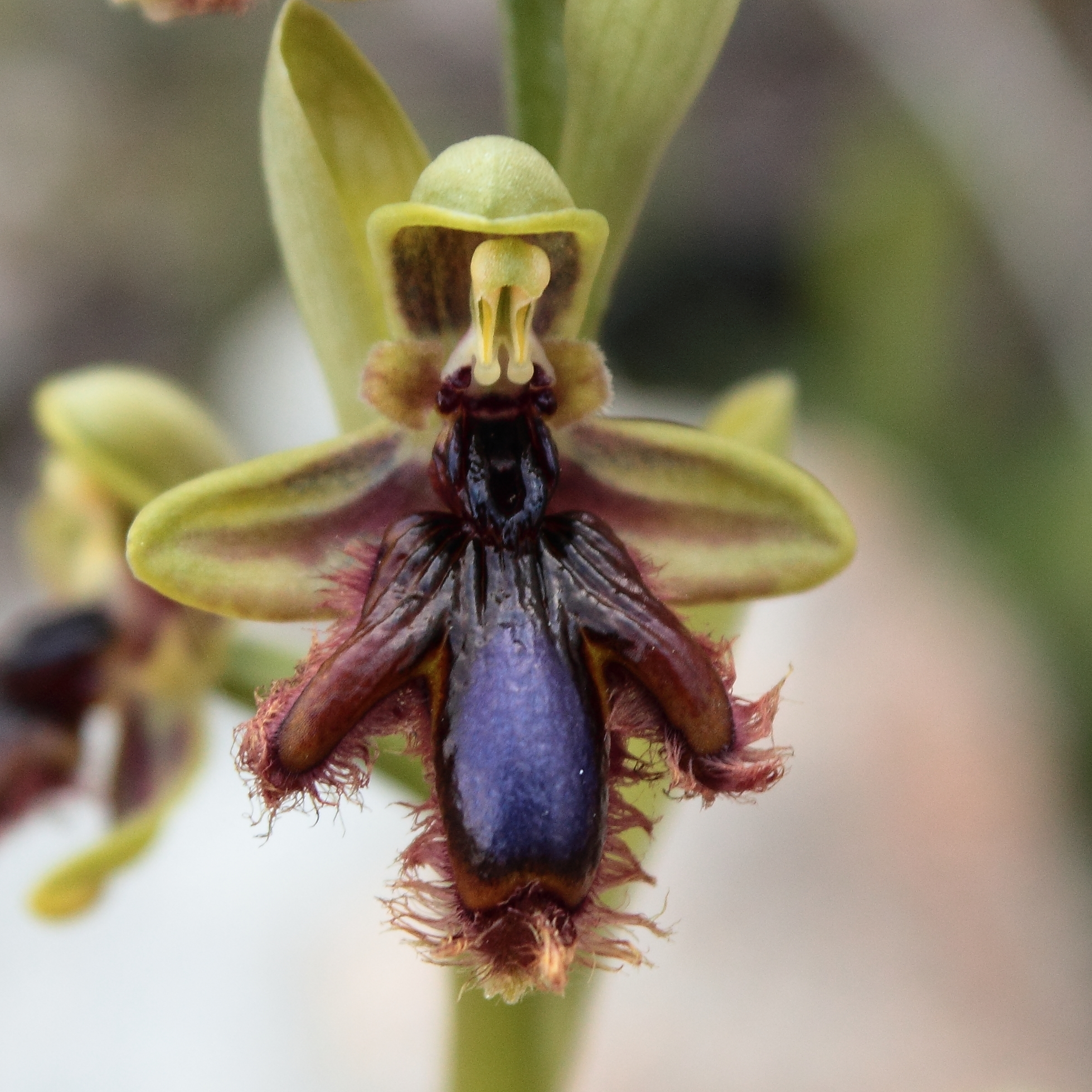 Ophrys lusitanica